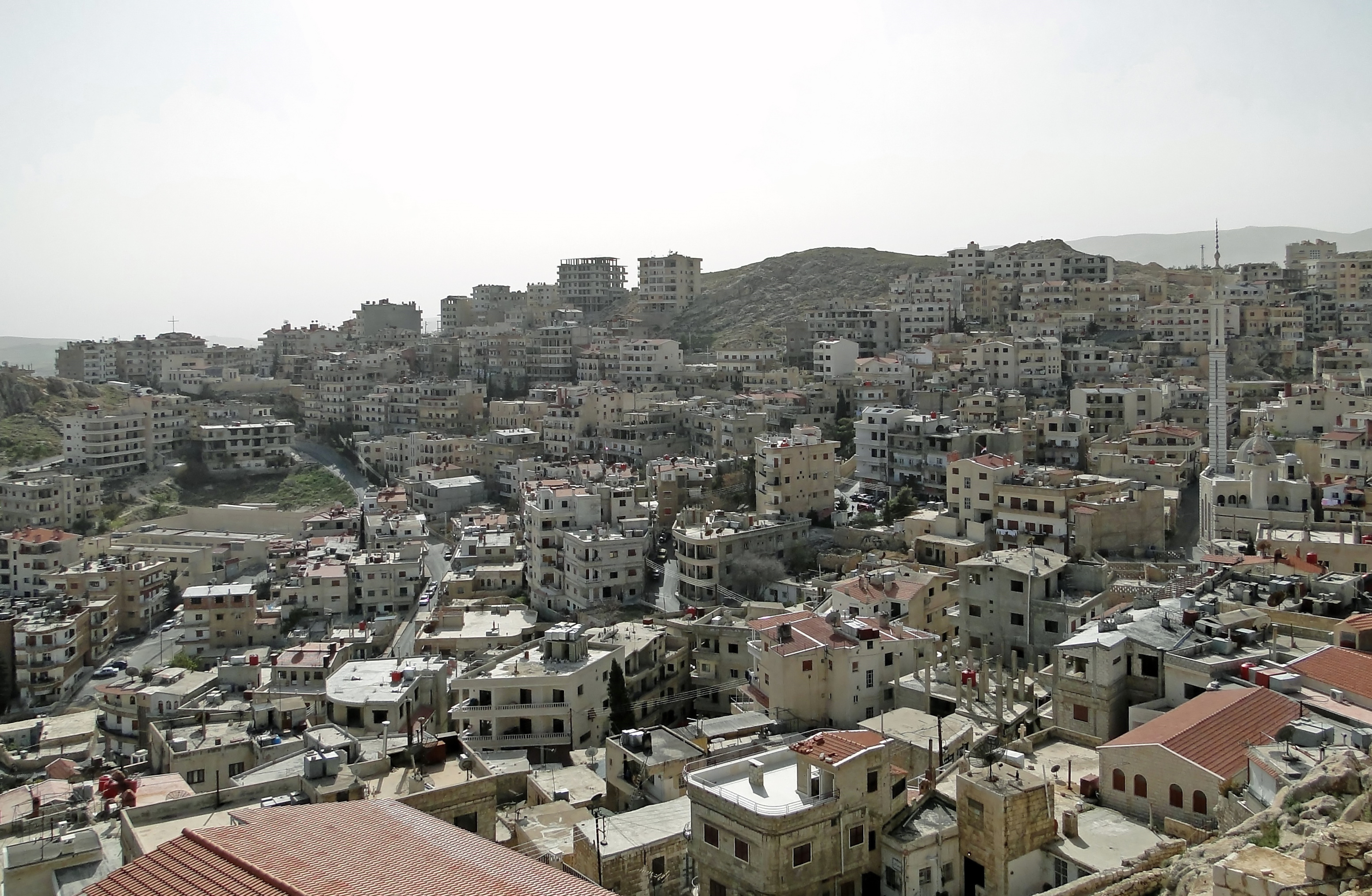 City of Saidnaya seen from the convent of Our Lady of Saidnaya, Syria